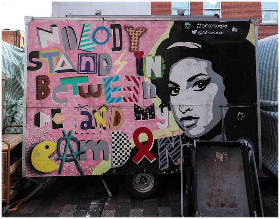 Amy Winehouse graffiti in Camden Town, London